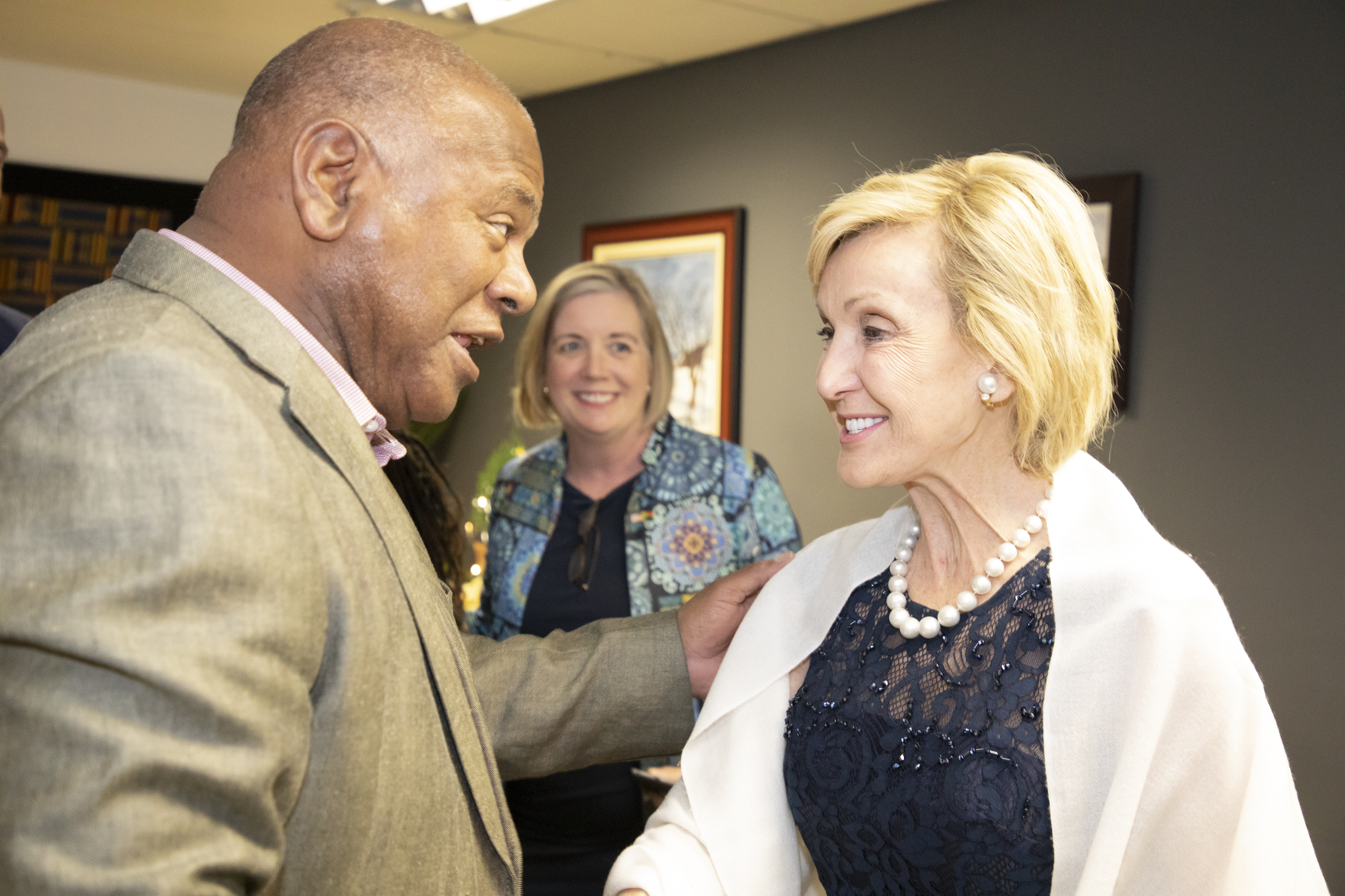 New York to Cape Town Inaugural Flight